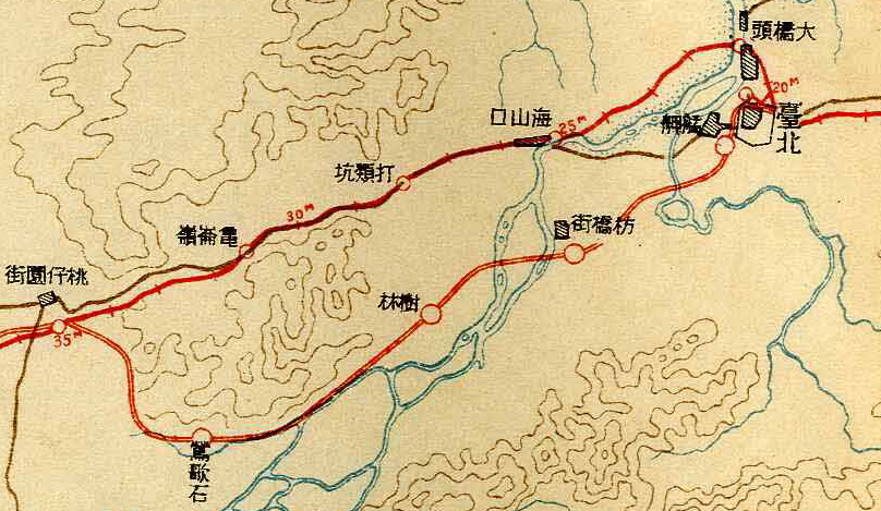 Railway Map of Taihoku and Toshien, before and after 1901